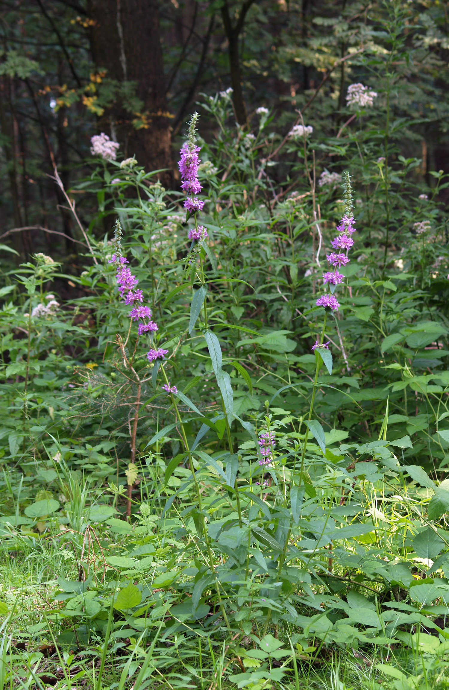 Purple Loosestrife (Lythrum salicaria), Falkenau, Germany